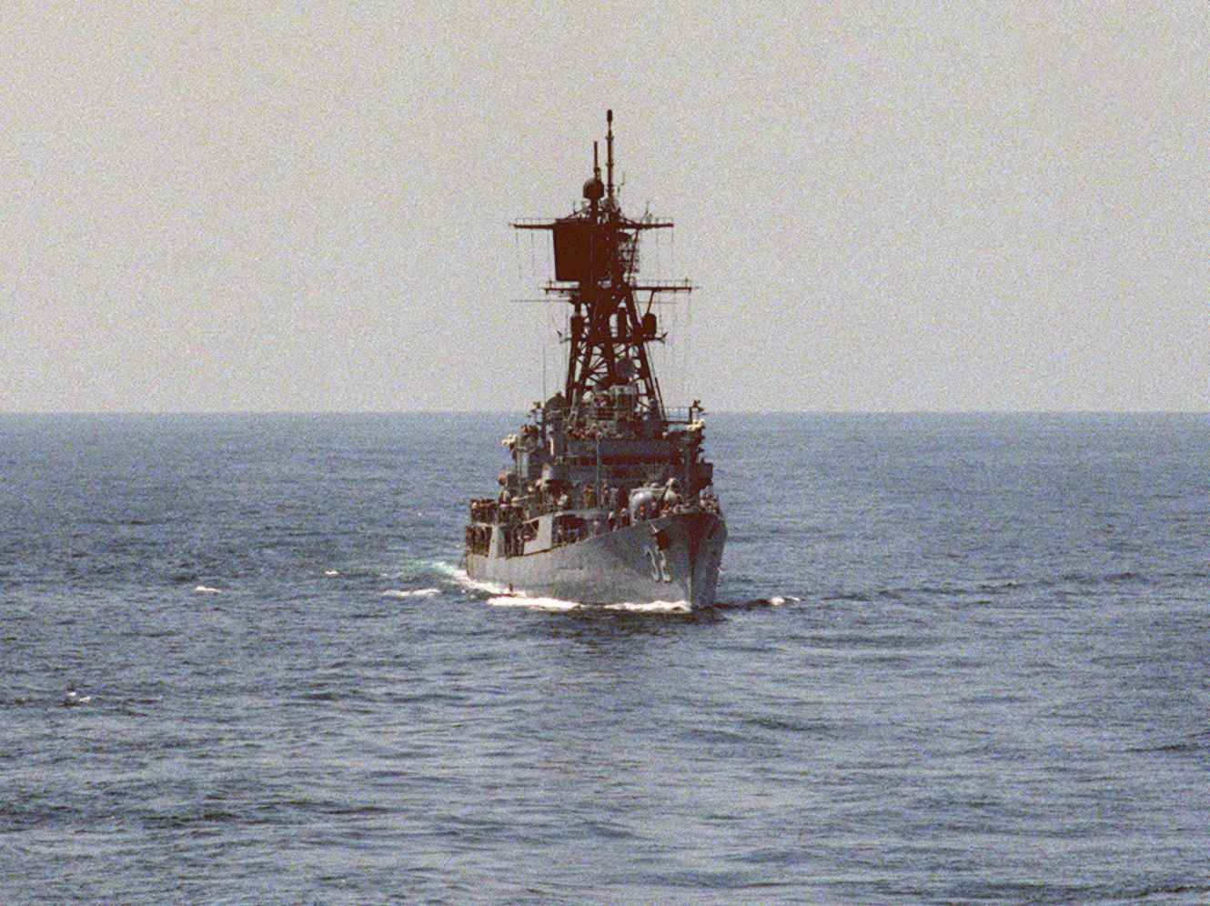 A starboard bow view of the U.S. Navy guided missile destroyer USS John Paul Jones (DDG-32) in the Arabian Sea, in March 1980.